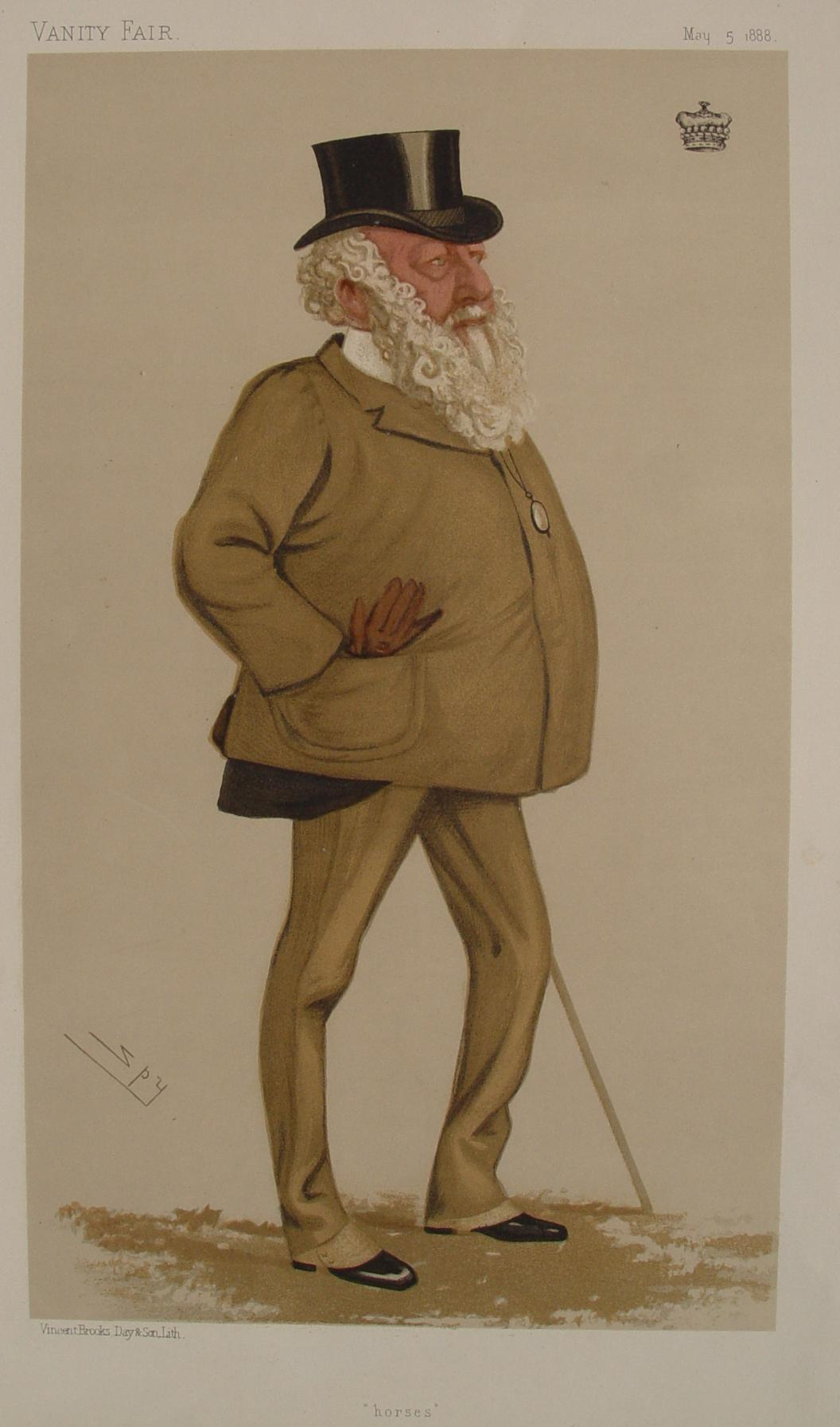 Statesmen No.542: Caricature of The Viscount Combermere. Caption reads: "Horses"